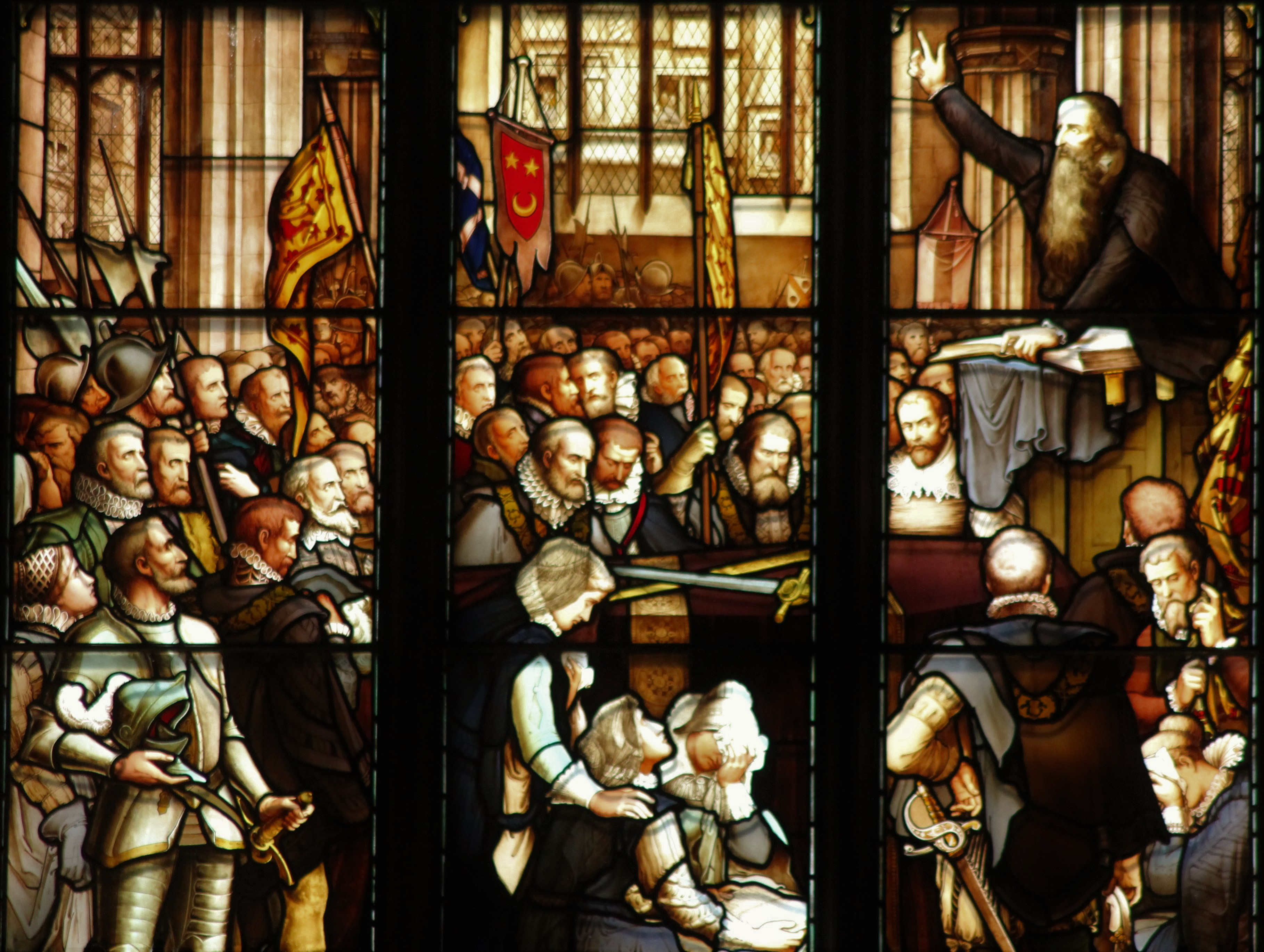 Scottish Reformer John Knox preaching the funeral sermon for leading opponent of Mary, Queen of Scots, the Earl of Moray. This is the lower section of a Victorian window by Ballantine in the Holy Blood Aisle of St Giles' Cathedral, Edinburgh.